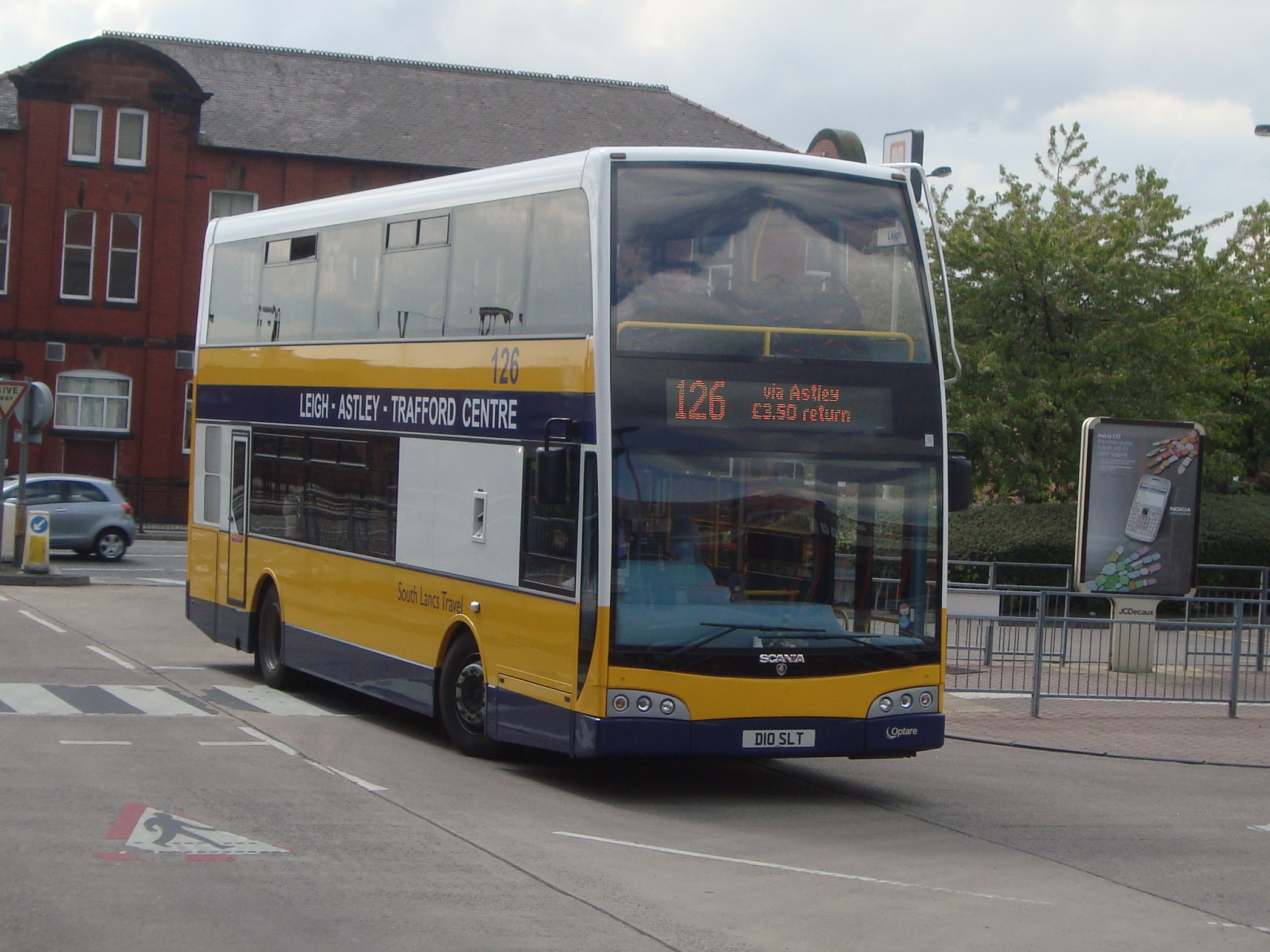 South Lancs Travel 10 (D10 SLT), a Scania N230UD/Optare Olympus, in Leigh bus station on route 126.